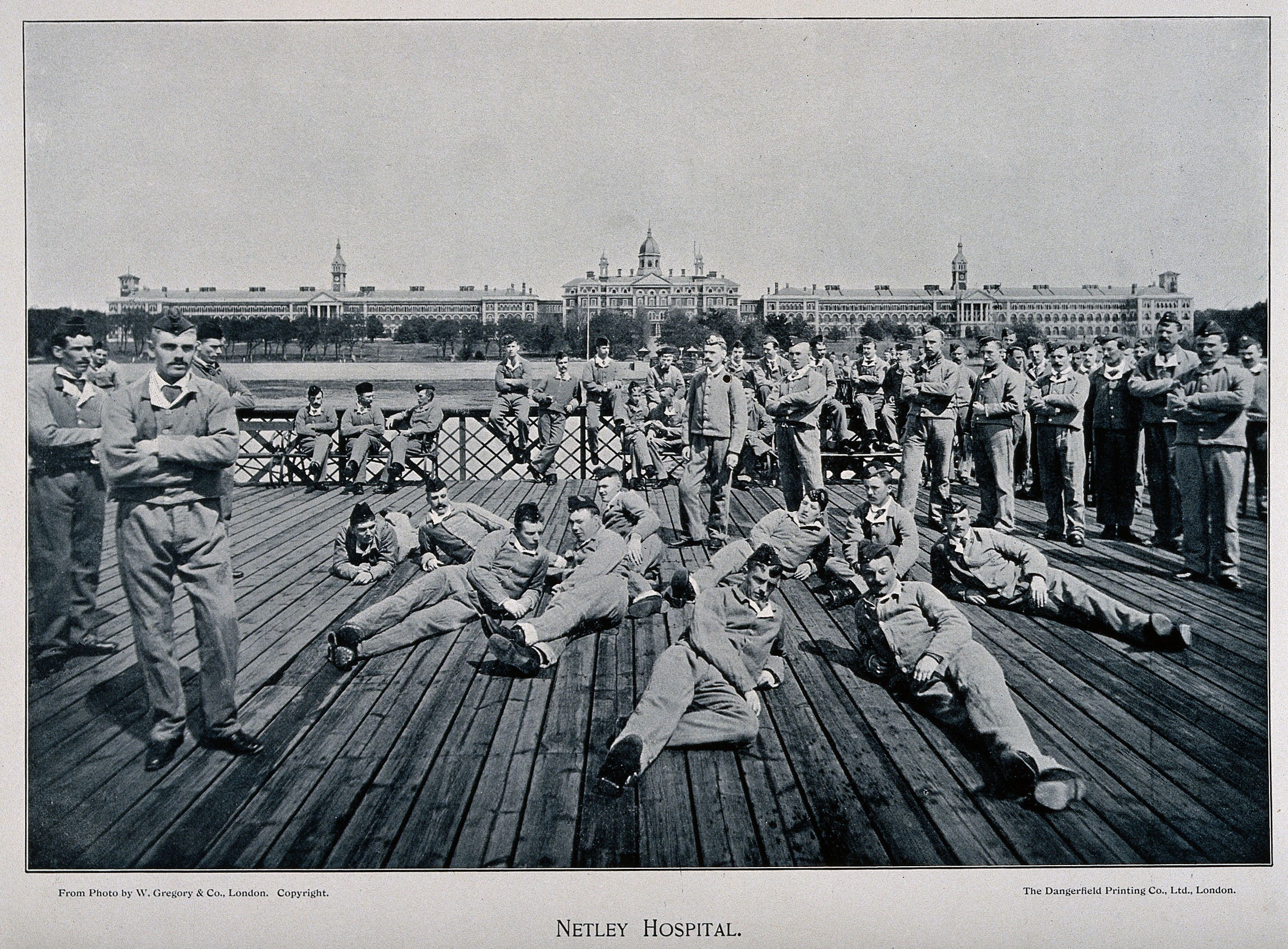 Boer War: soldiers relaxing by Southampton Water with a view across the estuary to Netley Hospital. Halftone after a photograph by W. Gregory & Co., London. Iconographic Collections Keywords: W. Gregory & Co.,; Royal Victoria Hospital (Netley, England)